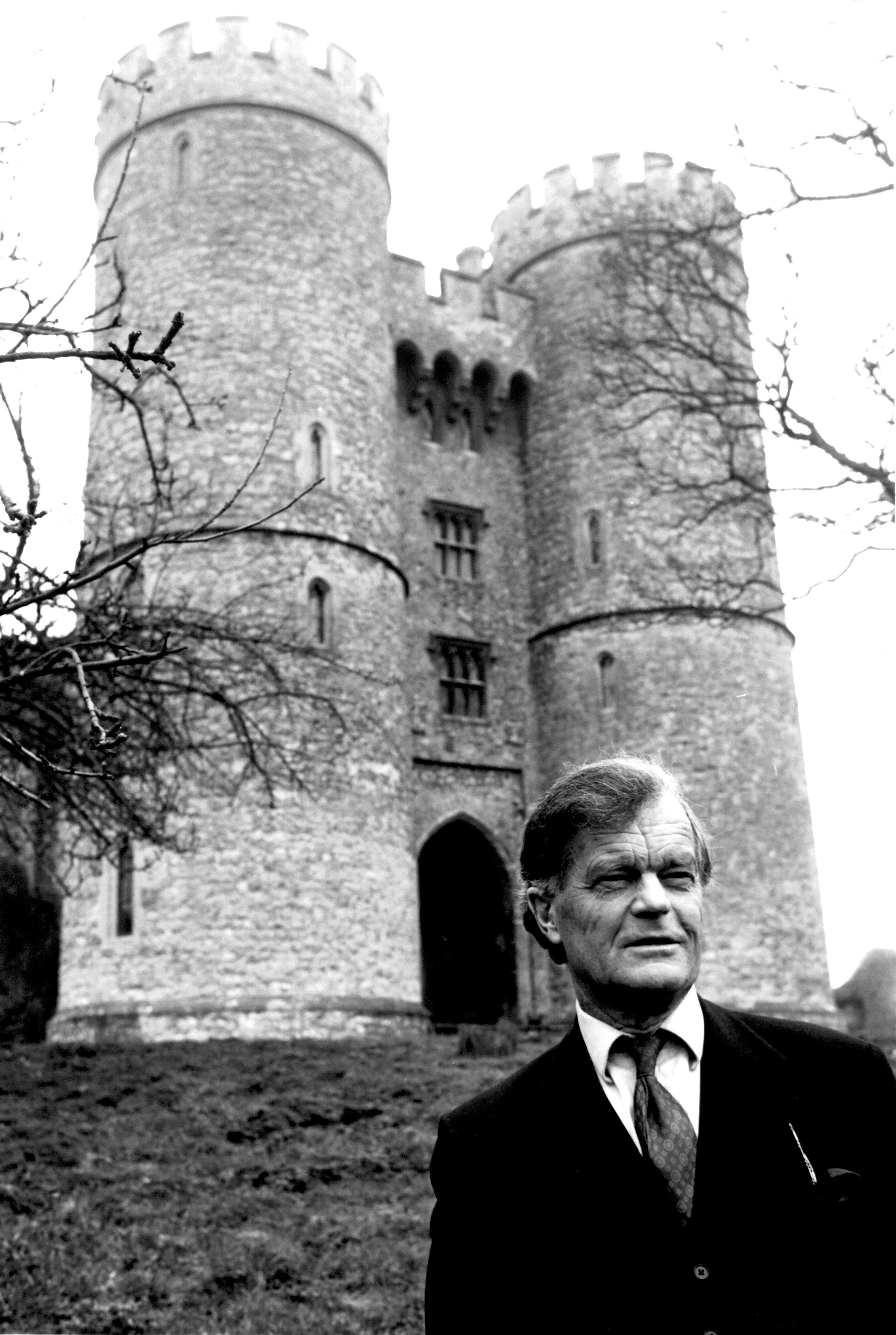 Alan Clark appearing on Opinions on 21 February 1993